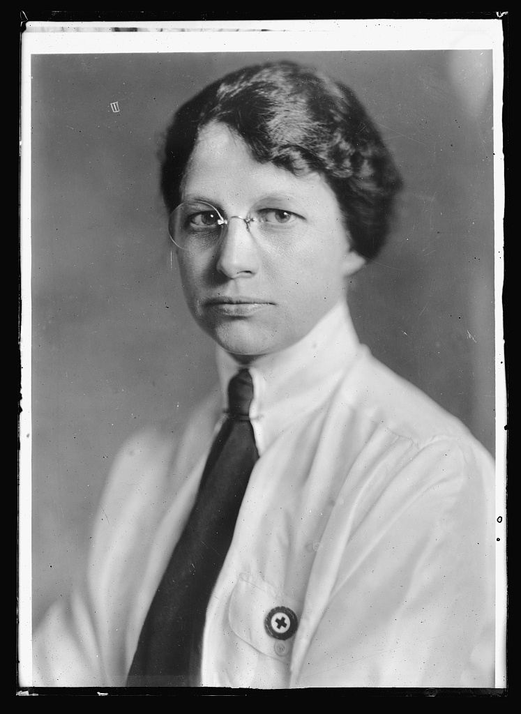 Black-and-white photograph portrait from 1920, of a white woman, Elizabeth G. Fox, wearing a white shirt and dark necktie, with a Red Cross pin.